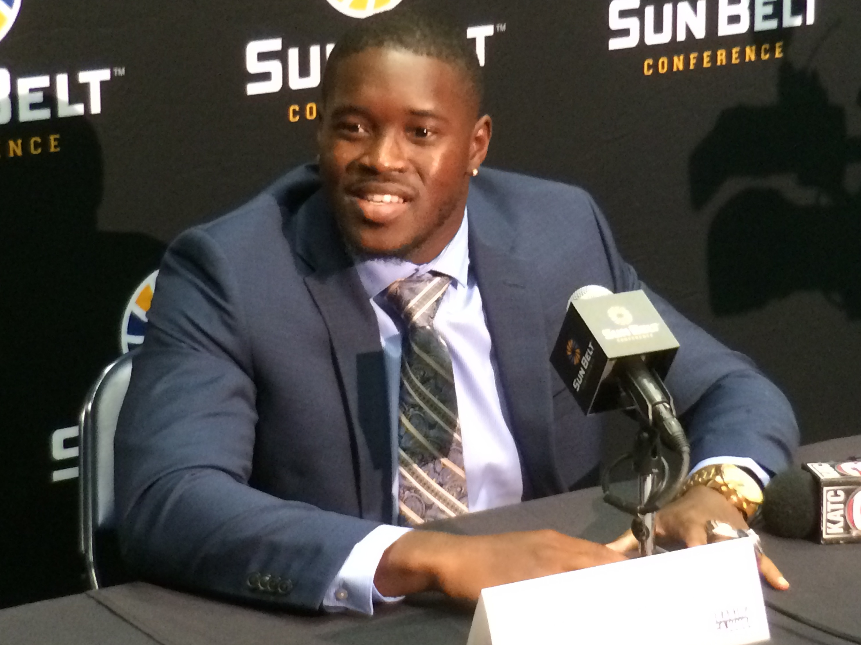 Elijah McGuire, running back on the Louisiana Ragin' Cajuns football team, at the 2016 Sun Belt Conference Media Day in the Mercedes-Benz Superdome in New Orleans.